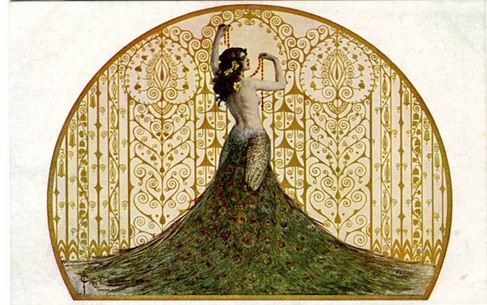 Высокомерие (haughtiness, arrogance, superciliousness)